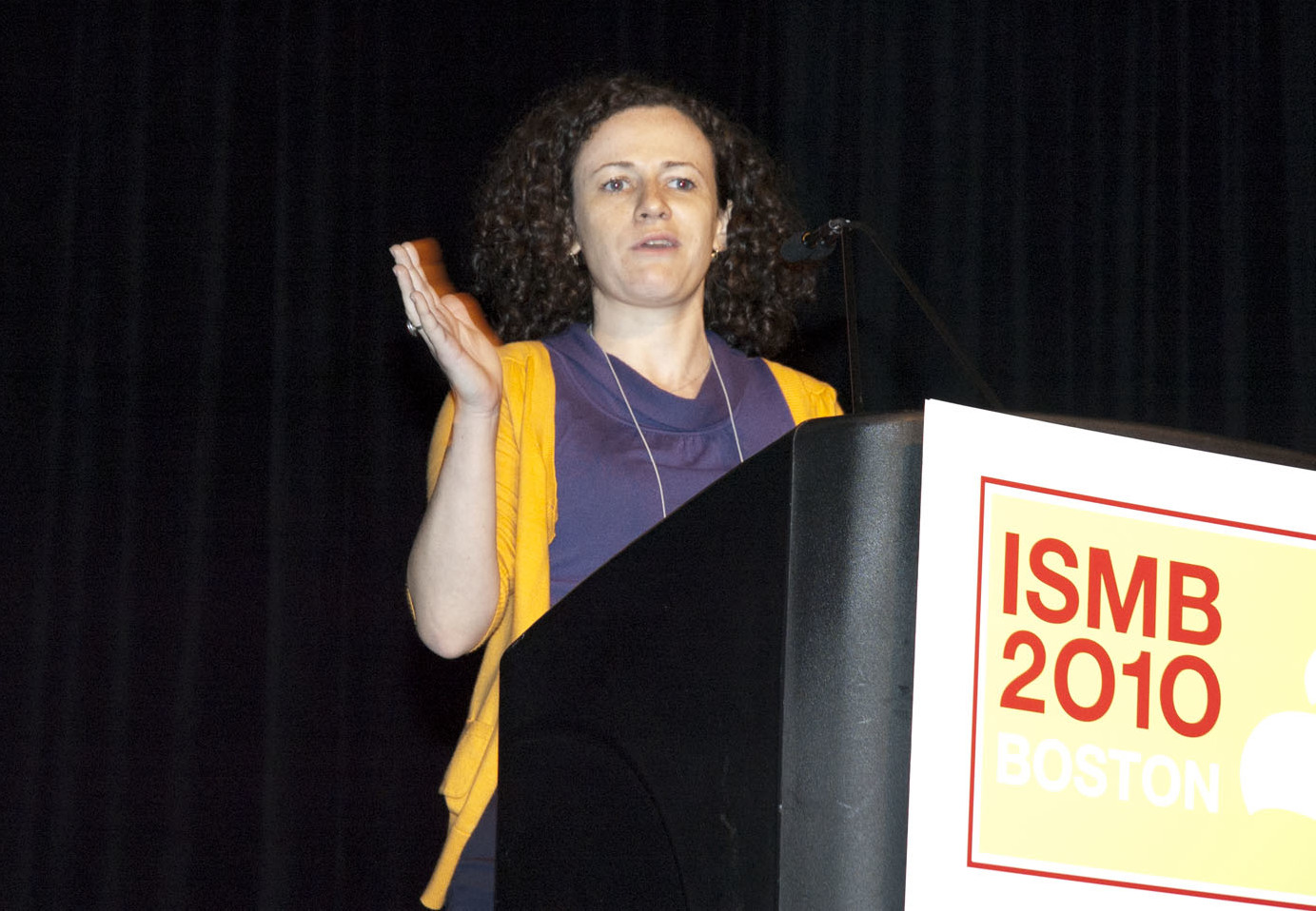 Olga Troyanskaya introducing Keynote George Church